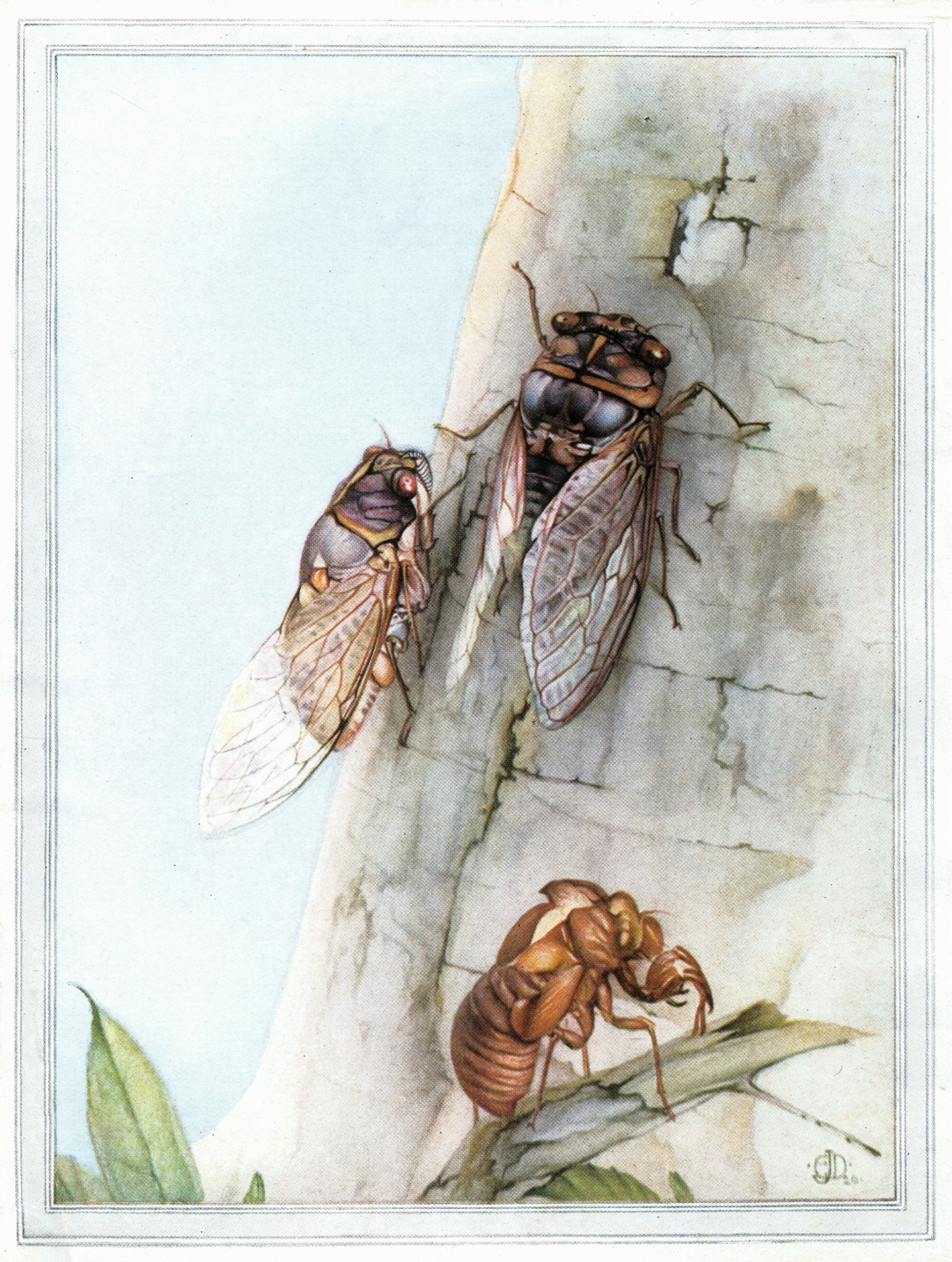 Plate from Fabre's book of Insects